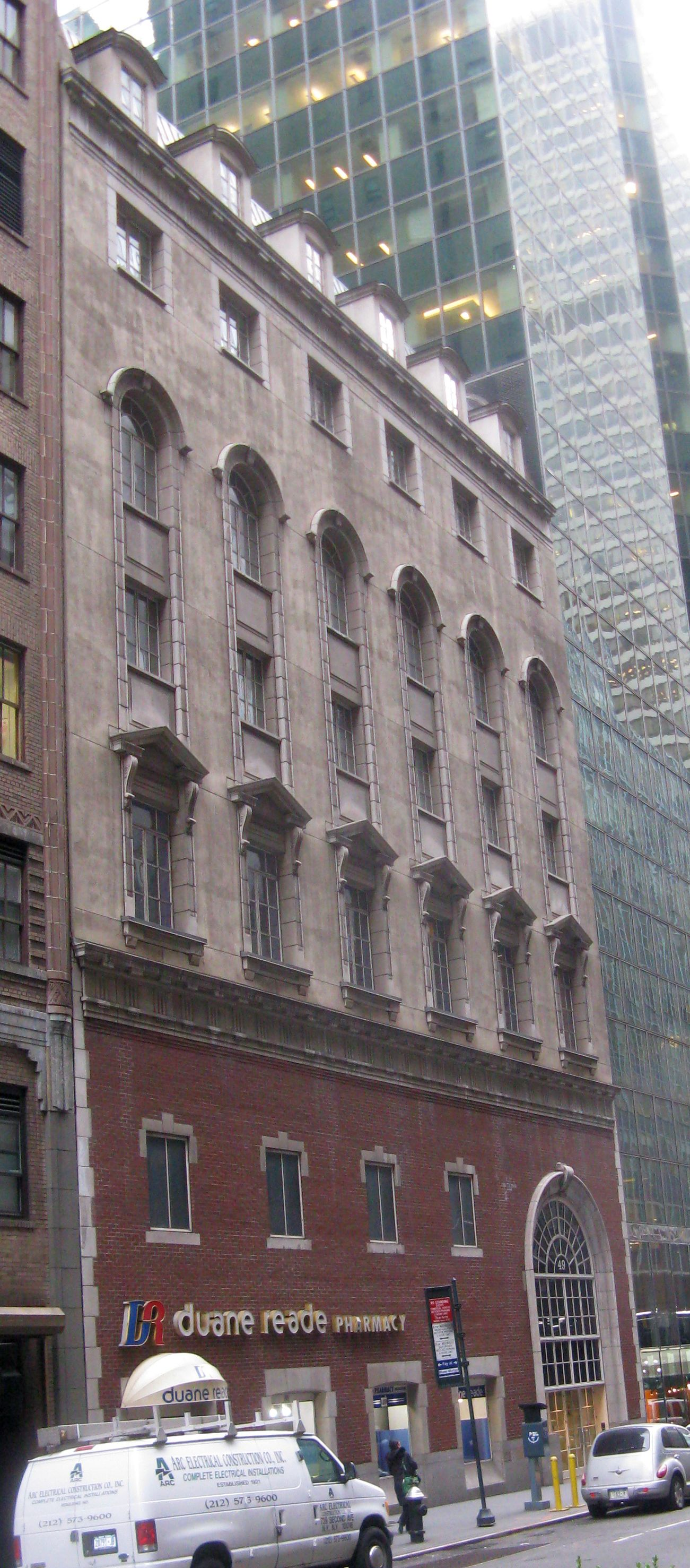 CBS Studio Building 52nd and Madison in New York City